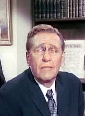 Cropped screenshot of Ralph Bellamy from the trailer for the film Sunrise at Campobello